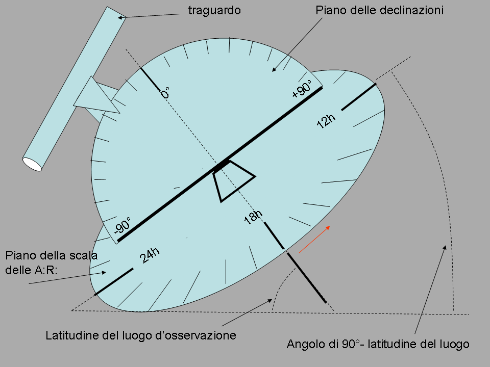 Sidereal indicative for to determine the position of celestial obejct.